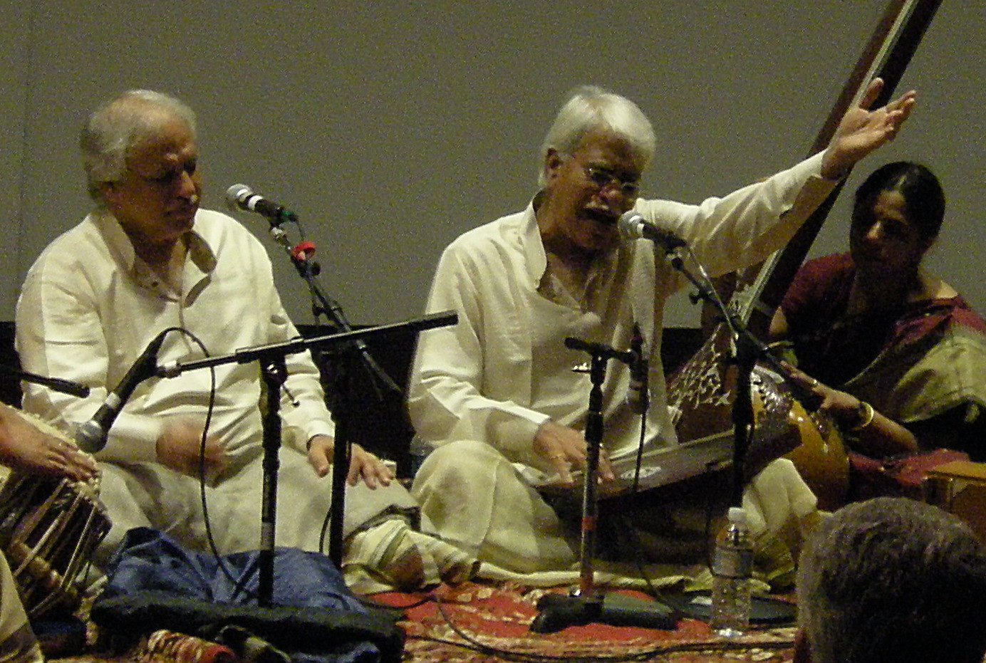 North Indian classical vocalists Rajan and Sajan Mishra performing at Kane Hall, University of Washington as part of the Ragamala concert series.